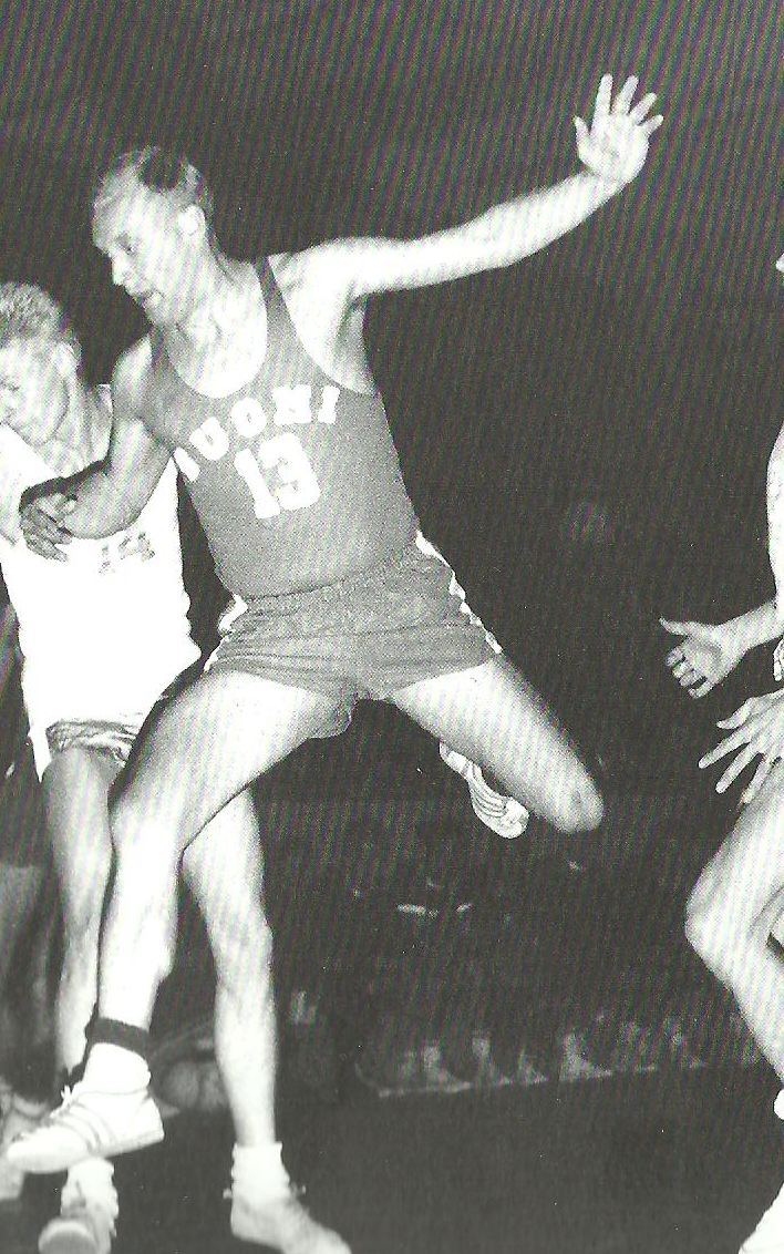 Seppo Kuusela in an All Star-game during the 1950's